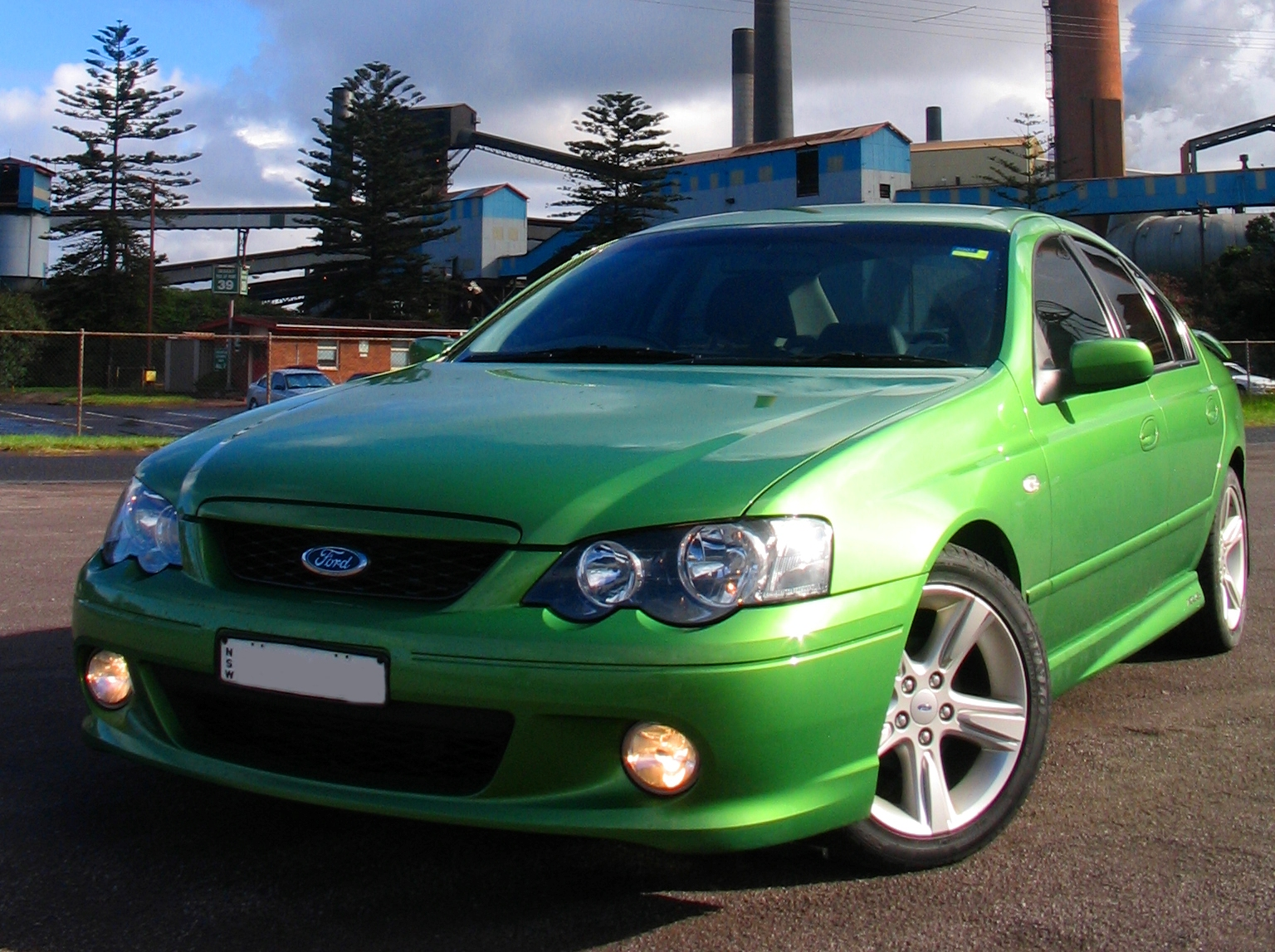 2004–2005 Ford Falcon (BA II) XR6 Turbo sedan. Photographed in New South Wales Australia.